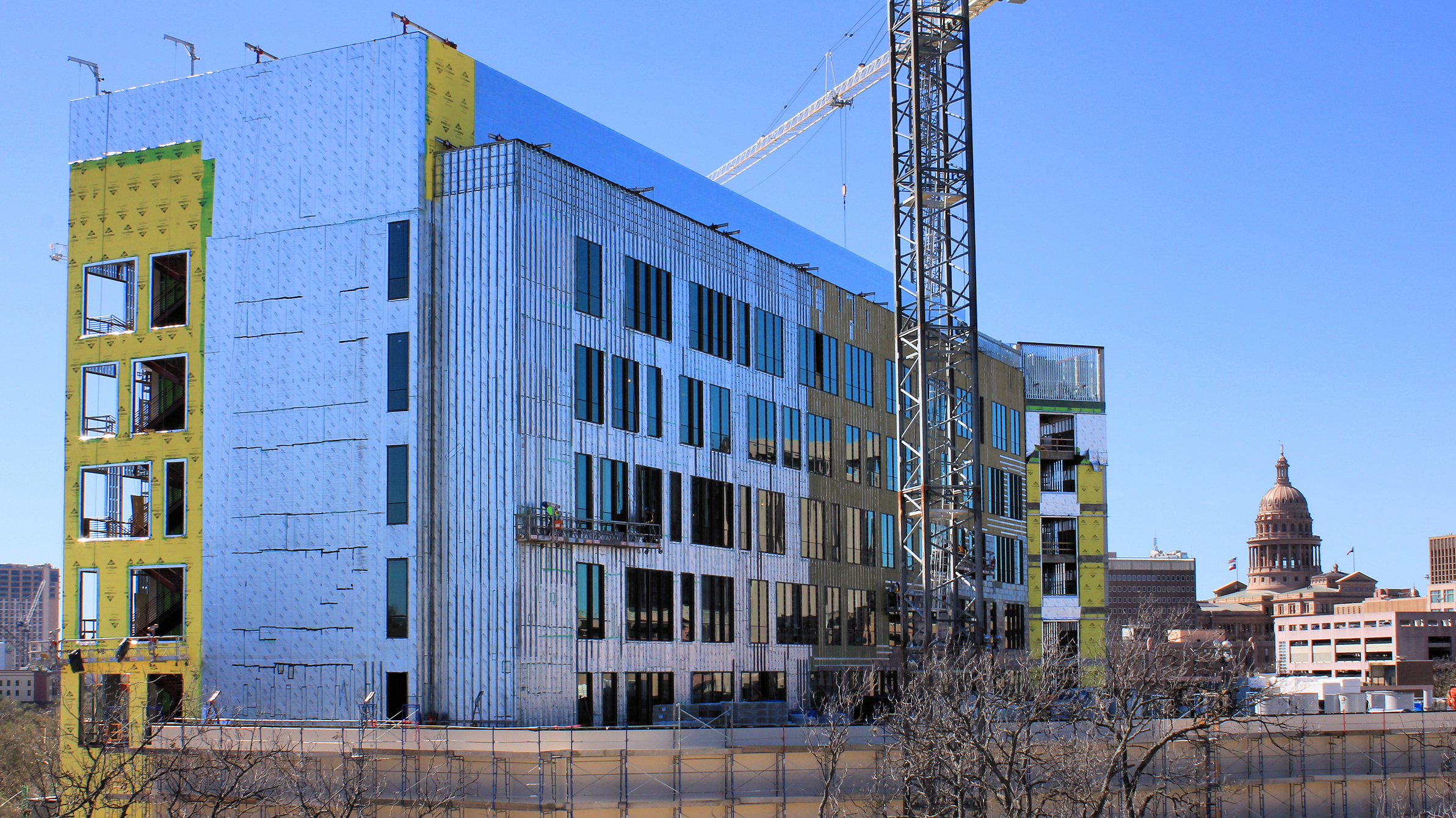 The Dell Medical School Research Building (now the Health Discovery Building) under construction at the University of Texas in downtown Austin, Texas in February 2016.